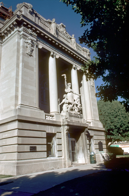 Monroe County Courthouse in Bloomington, Indiana, United States